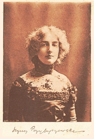 Dagny Juel (1867-1901), norwegian author, photo from the 19th century